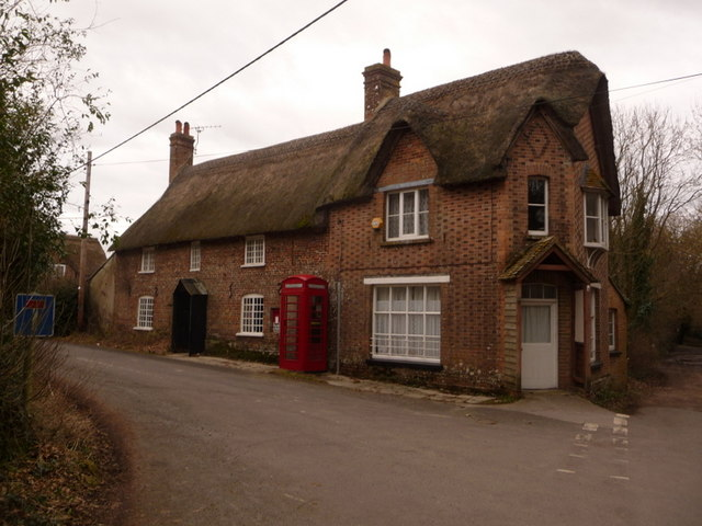 Moreton: the old post office Moreton's village store and post office closed down in the first couple of years of the 2000s, the postbox and telephone confirming the indication perhaps given by the style of window that there was ever a shop here.